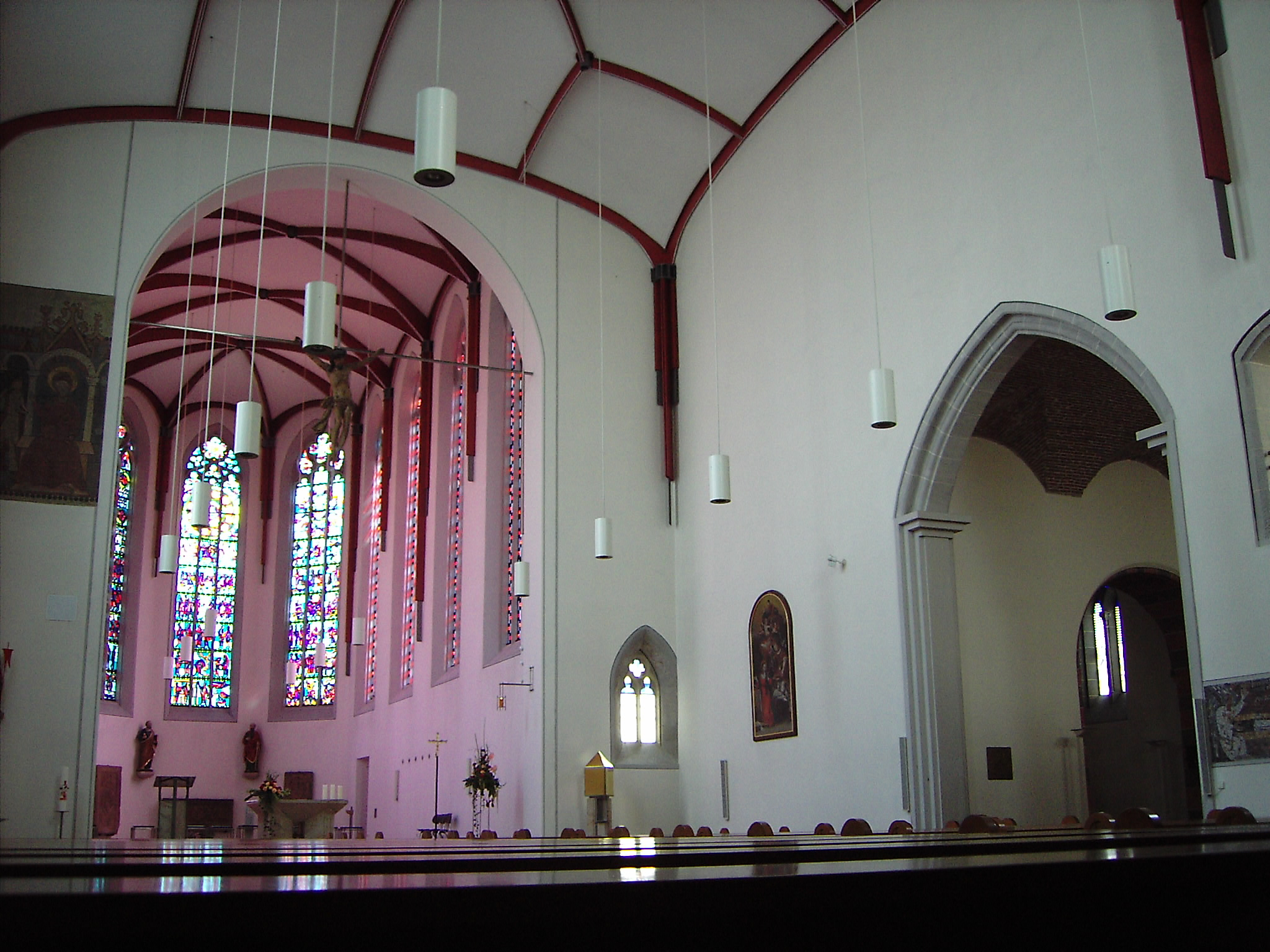 Interior view of the Minster "Deutsch-Ordens-Münster" of the City Heilbronn